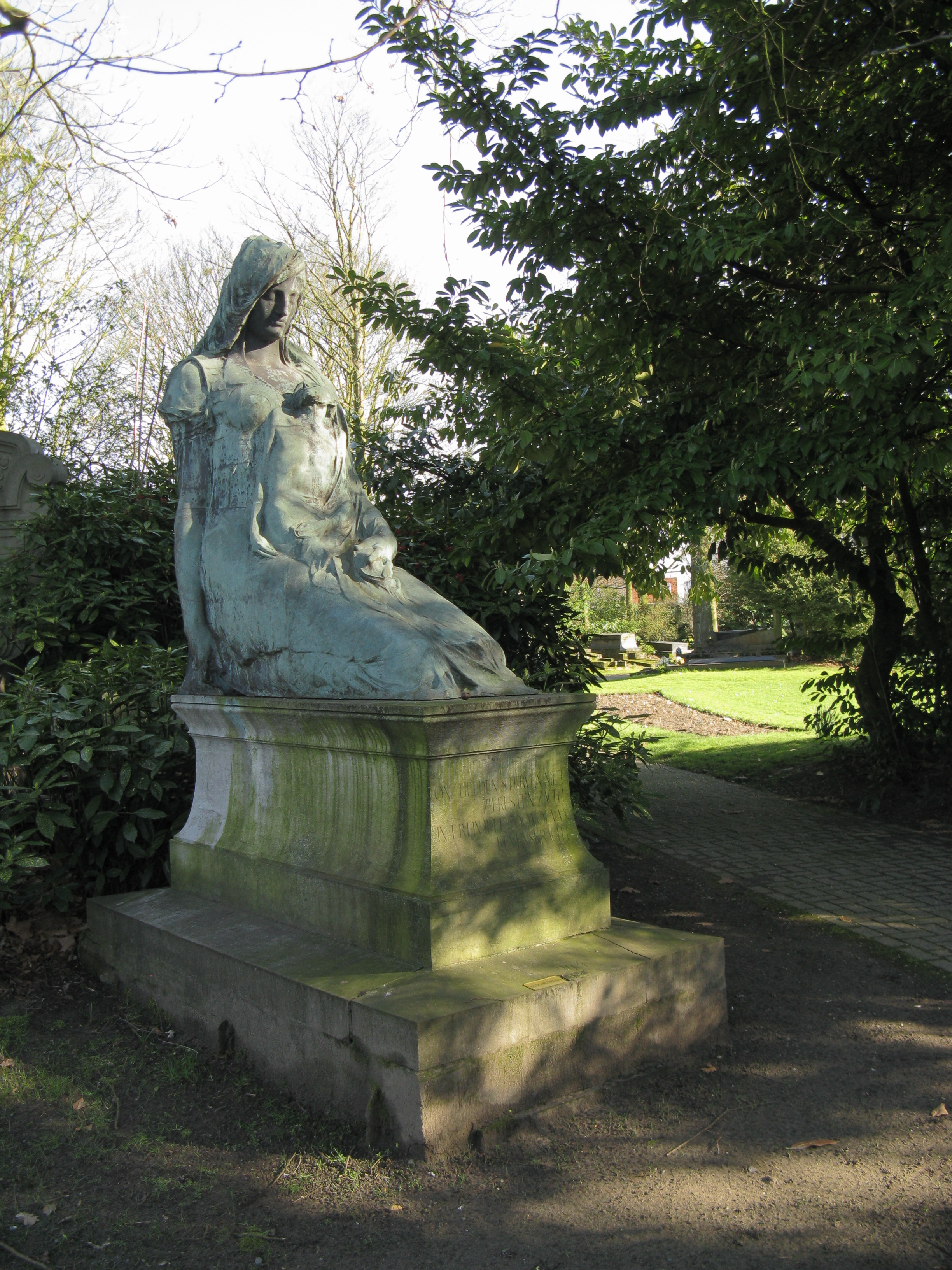 Cemetery "Westerbegraafplaats" at the Palinghuizen in Ghent, Belgium.